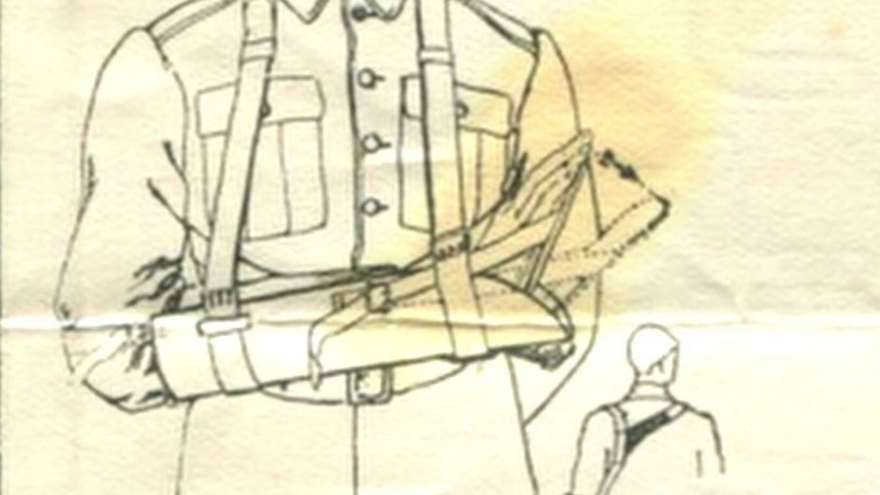 Anne Acheson's initial design to support broken limbs guess 1917